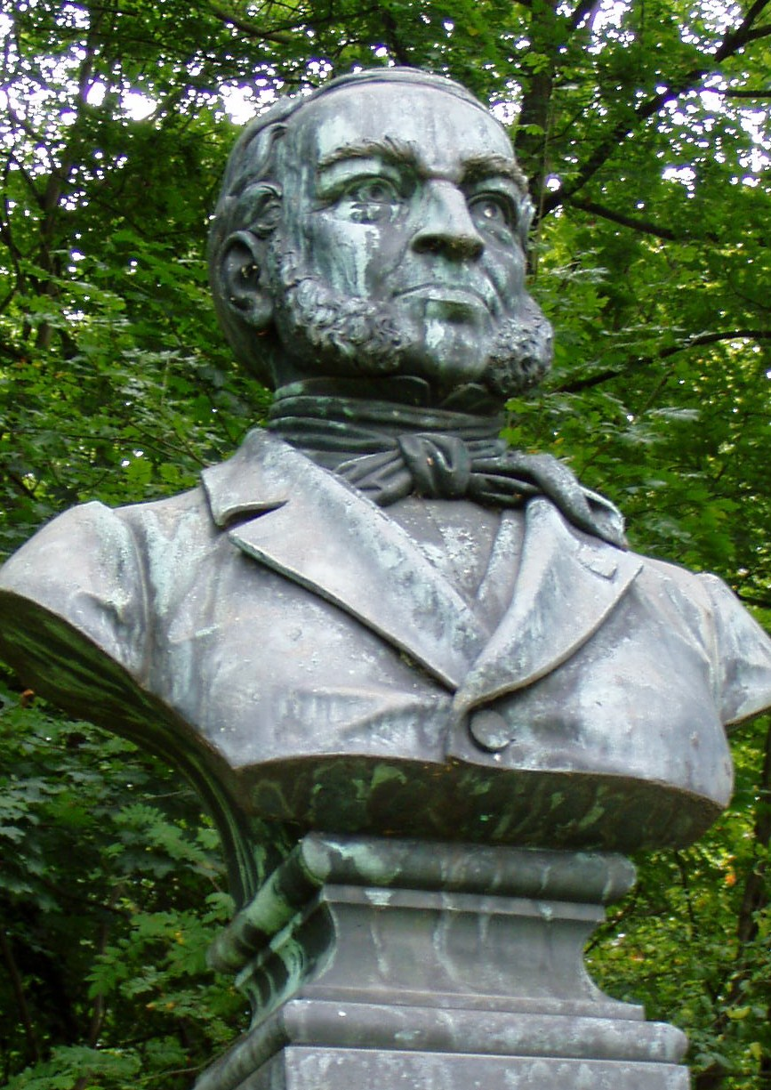 Dr. med. Franz Anton von Balling (1800-1875); location of the bust: „Ballinghain“, Ostring, Bad Kissingen